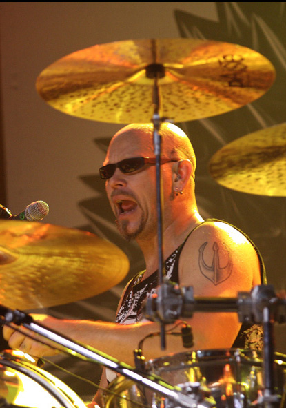 Ian Haugland in concert.